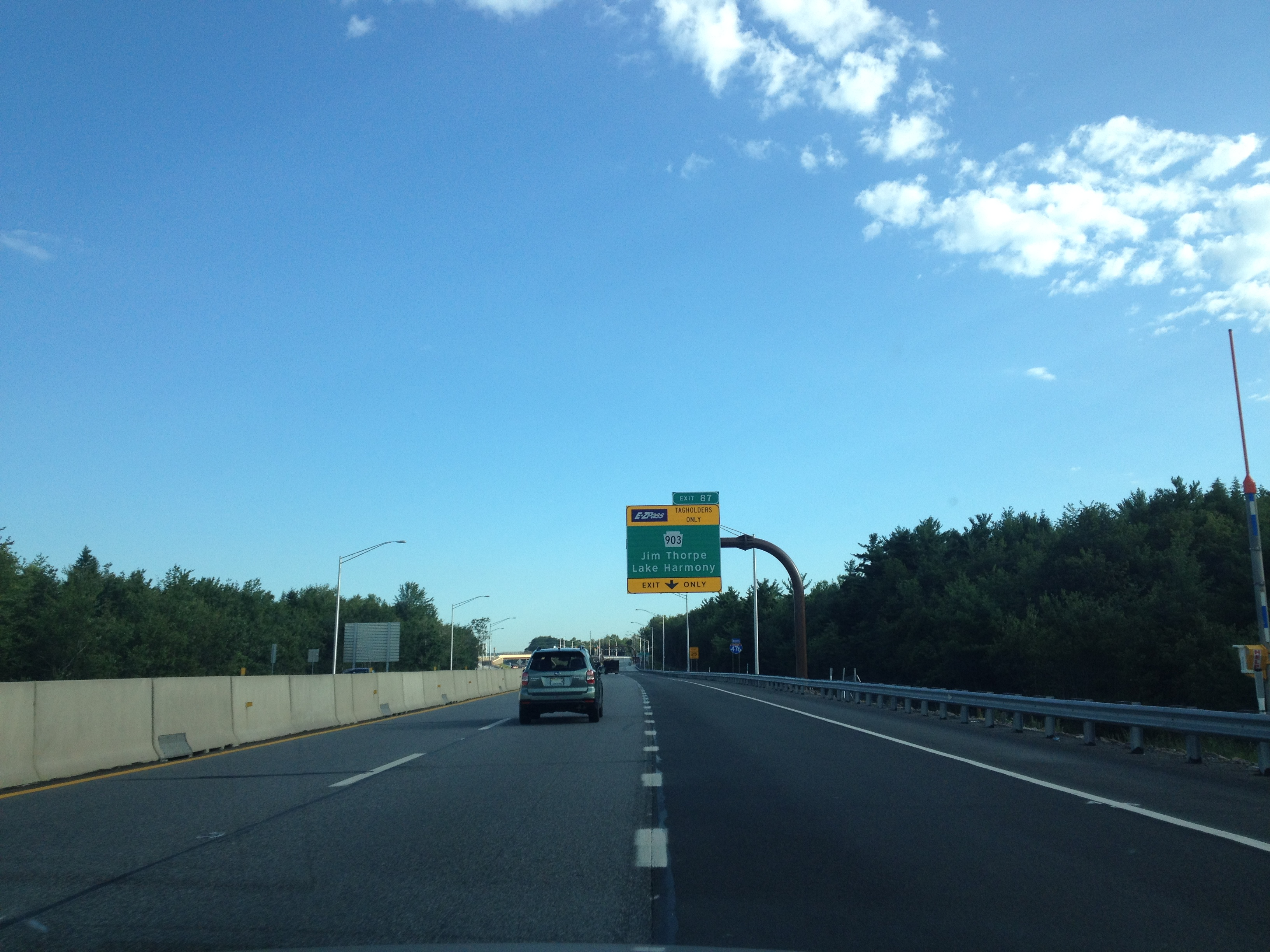 Northbound Interstate 476 (Pennsylvania Turnpike Northeast Extension) at the E-ZPass only exit for Pennsylvania Route 903 in Penn Forest Township.